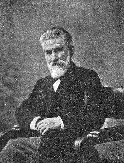 Dmitry Nikolayevich Anuchin